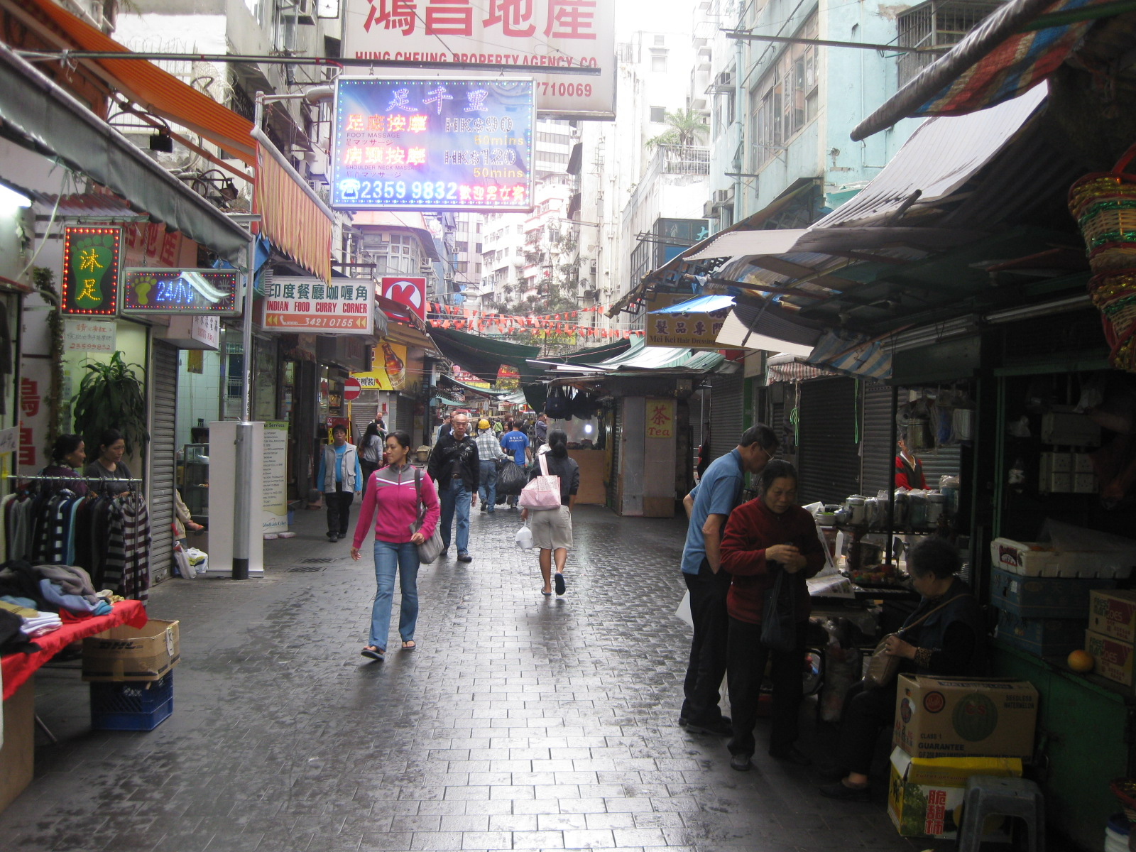 Nanking street